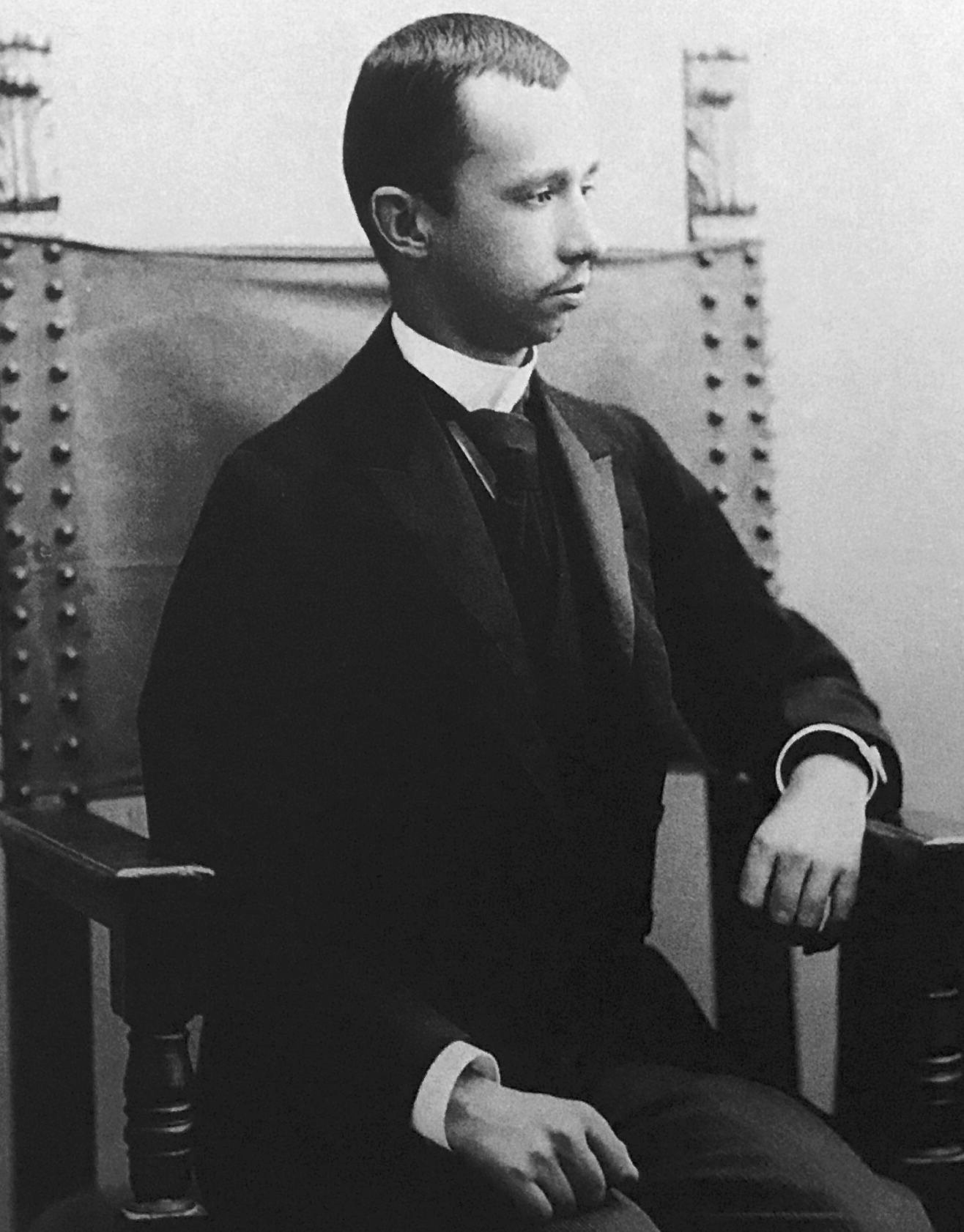 Henry, Duke of Parma (1873-1939)